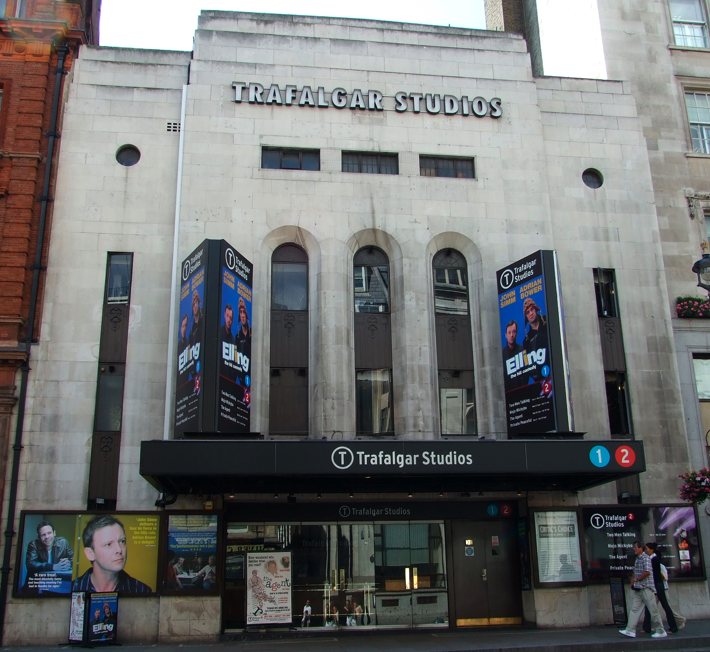 A photo of the Trafalgar Studios, London taken by myself.